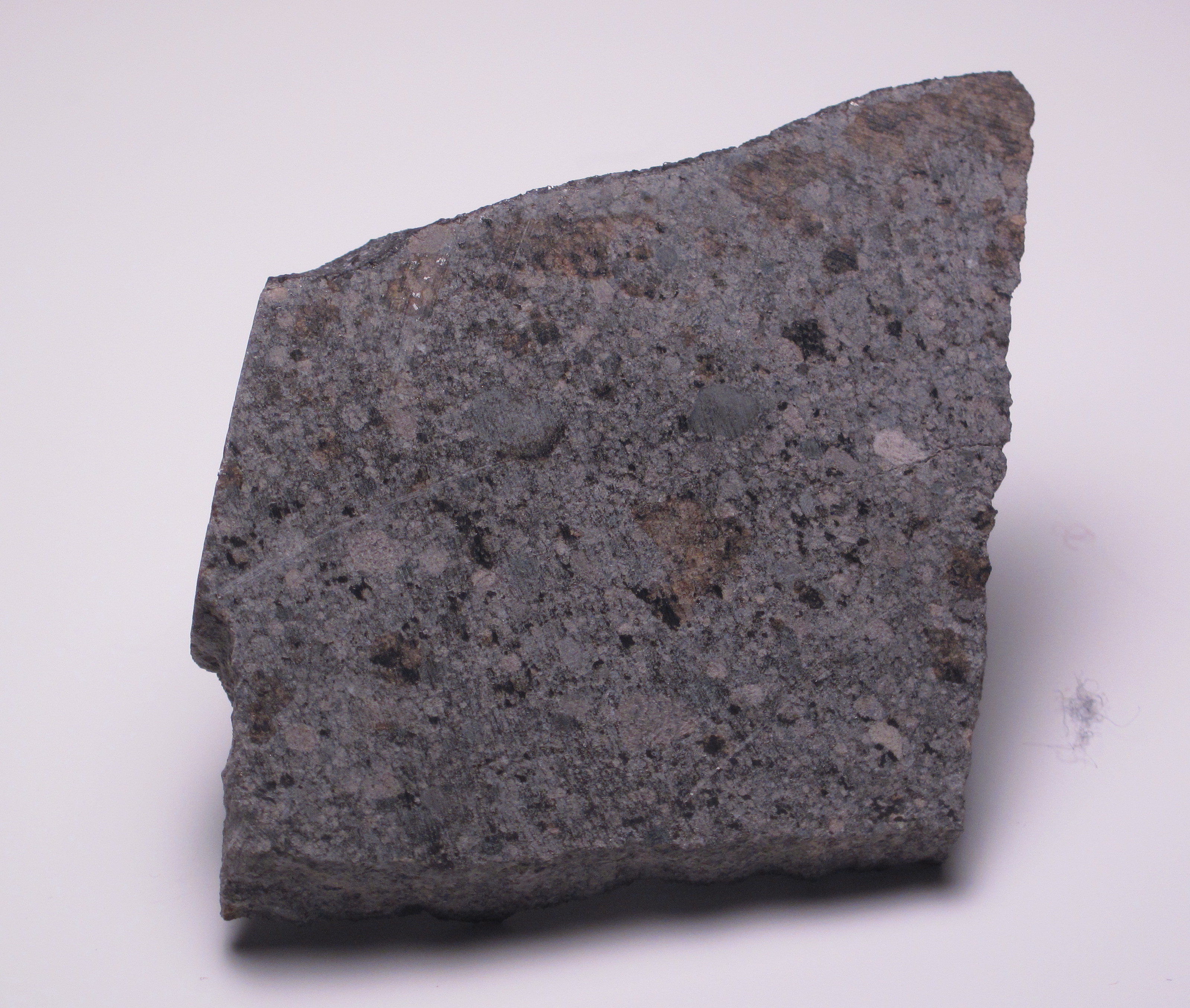 20.4 gram partial slice of the historic witnessed fall "Homestead". This is a nice specimen with fusion crust along one edge. This slice was taken from a 450 gram fragment that resided in the American Museum of Natural History for over a century. The fall took place on Friday February 12, 1875 in the small town of Homestead, Iowa. At about 10:30 a brilliant fireball lit up the cold dark sky. The flash was followed by loud rumbling sounds as the meteoroid exploded over the snowy countryside. The first meteorite fragment was found two miles west of Homestead by a woman named Sarah Sherlock. The stone weighed seven pounds and six ounces. The largest mass weighed 74 lbs and was not discovered until spring. It along with a 48 pound mass were buried 2 feet in the ground. In total approximately 227kgs of this attractive L5 brecciated chondrite were discovered. Several of the larger pieces made their way into the collection of the State University of Iowa while many others were distributed to museums worldwide.